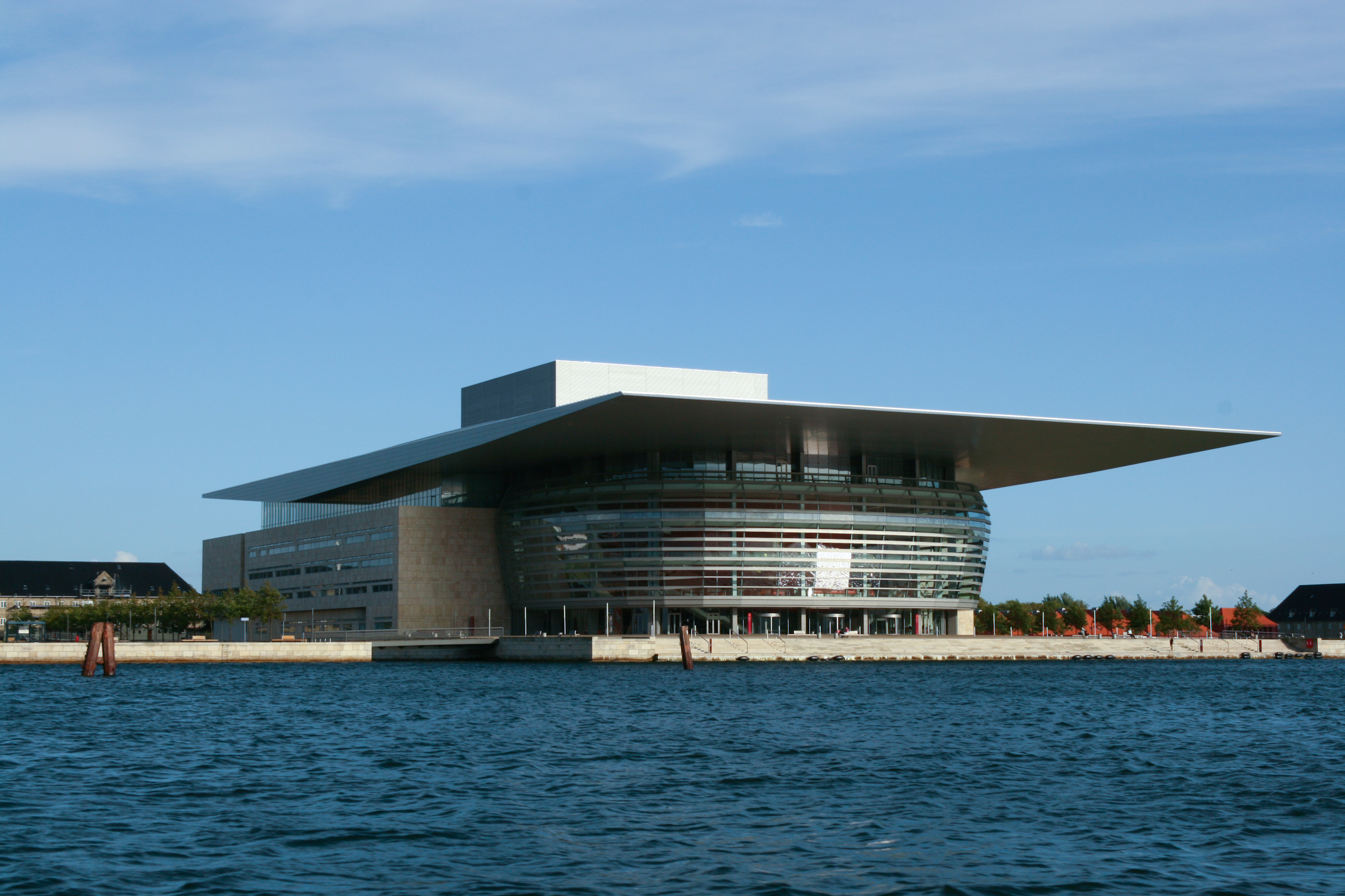 Copenhagen Opera House